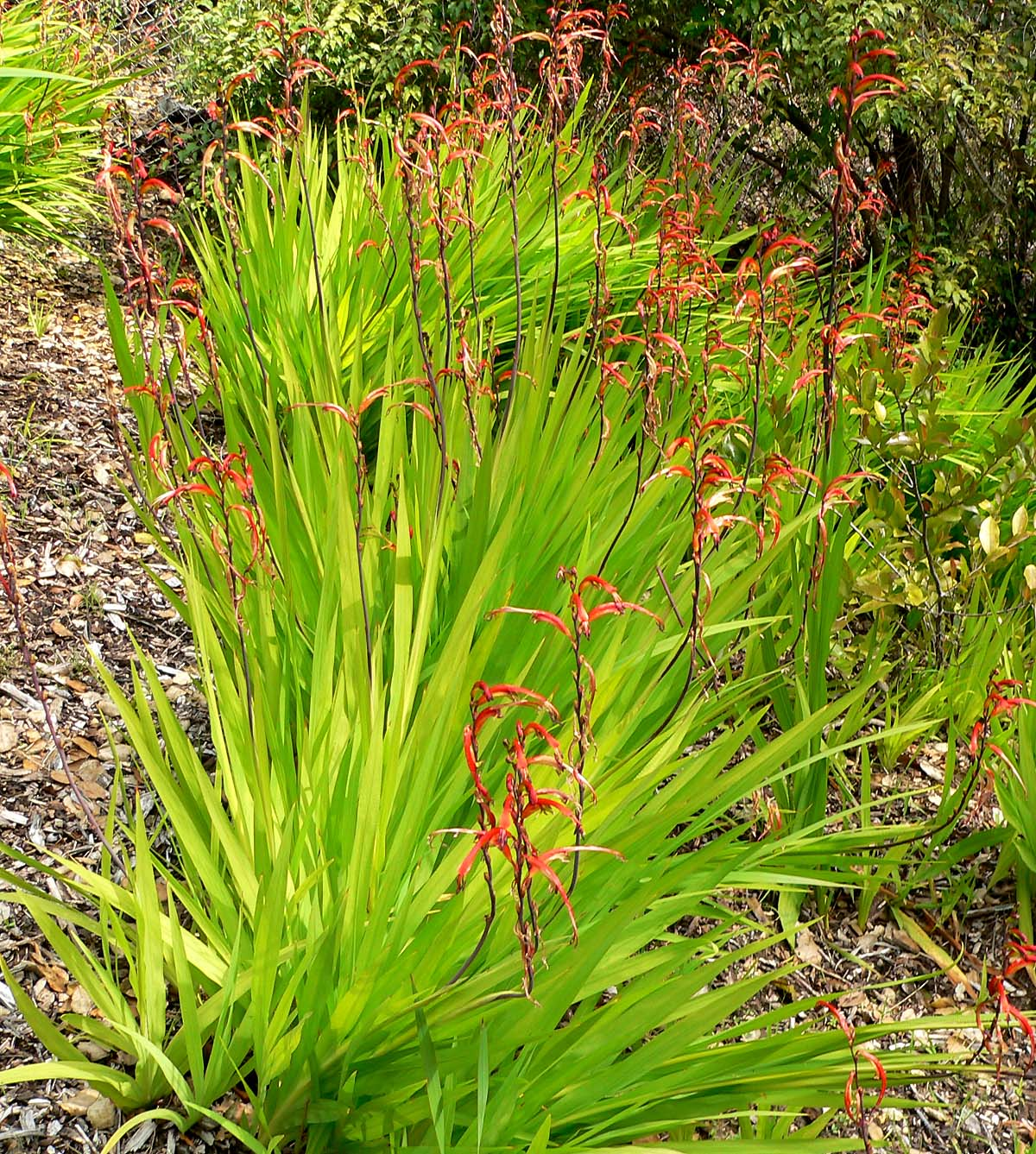 Photo of Chasmanthe floribunda at the University of California Botanical Garden